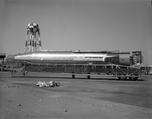 PictionID:43733867 - Catalog:14_006008 - Title:Trailer Missile Handling. Date: 10/12/1960 - Filename:14_006008.TIF - - - - Image from the Convair/General Dynamics Astronautics Atlas Negative Collection---Date comes from GD data. Please Tag these images so that the information can be permanently stored with the digital file.---Repository: San Diego Air and Space Museum